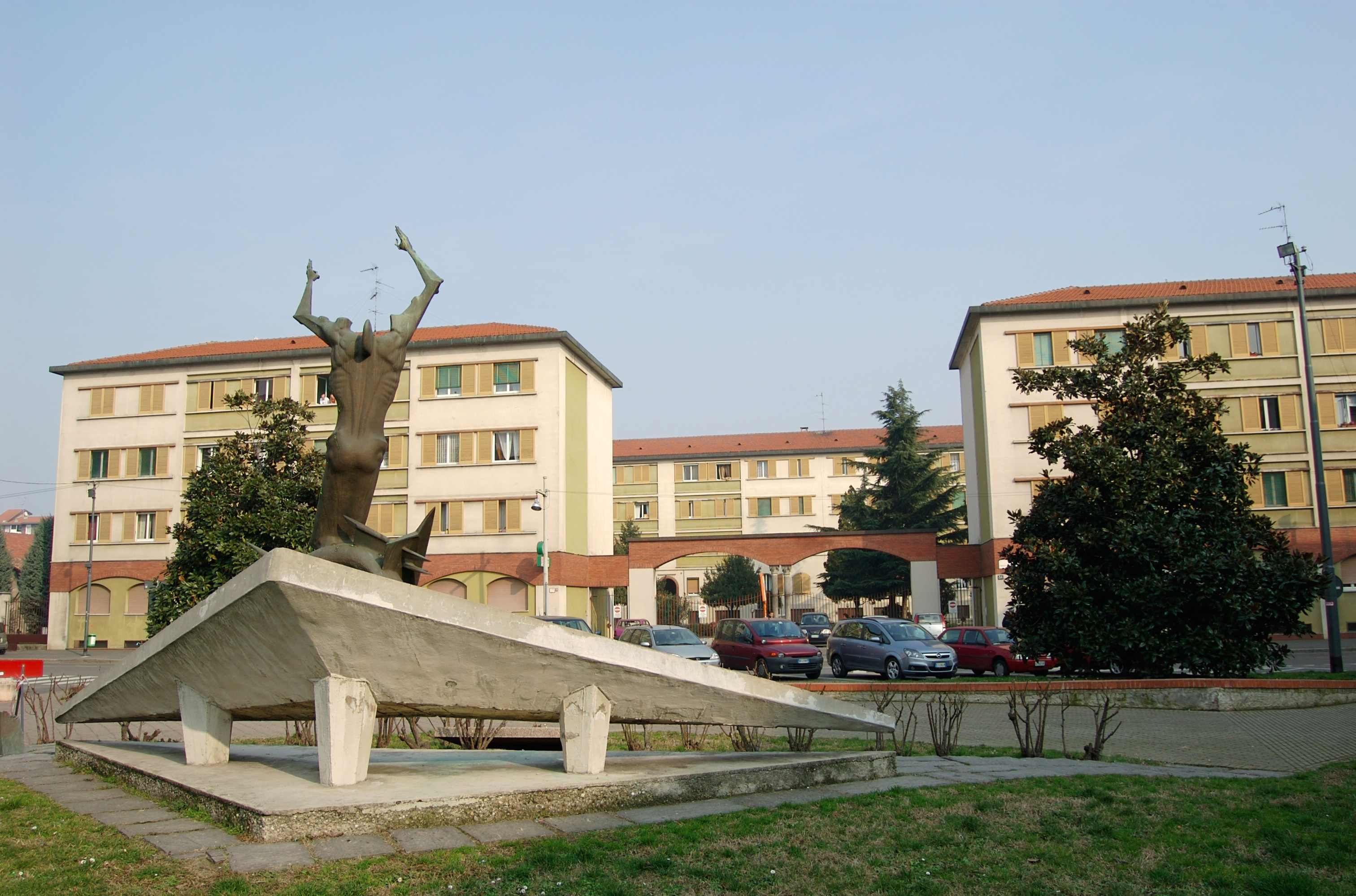 World war II monument remembrance Milano Italy